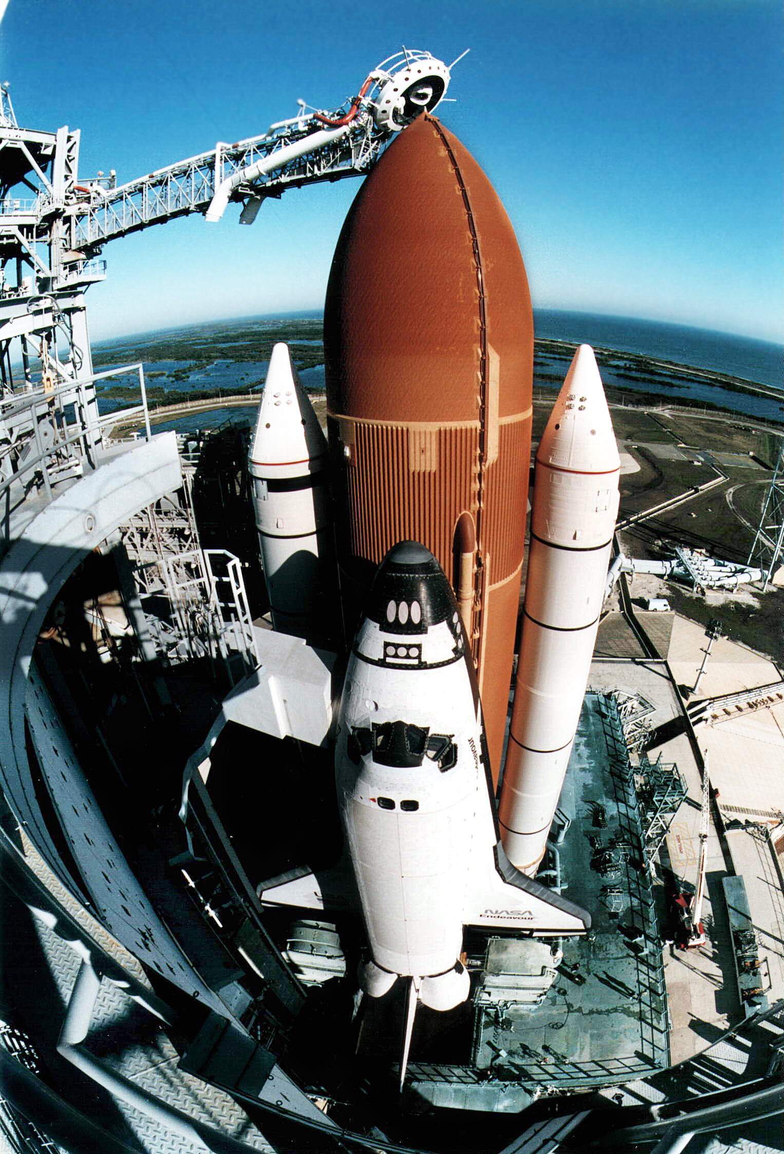 Space Shuttle Endeavour on Pad 39B, January 1996.